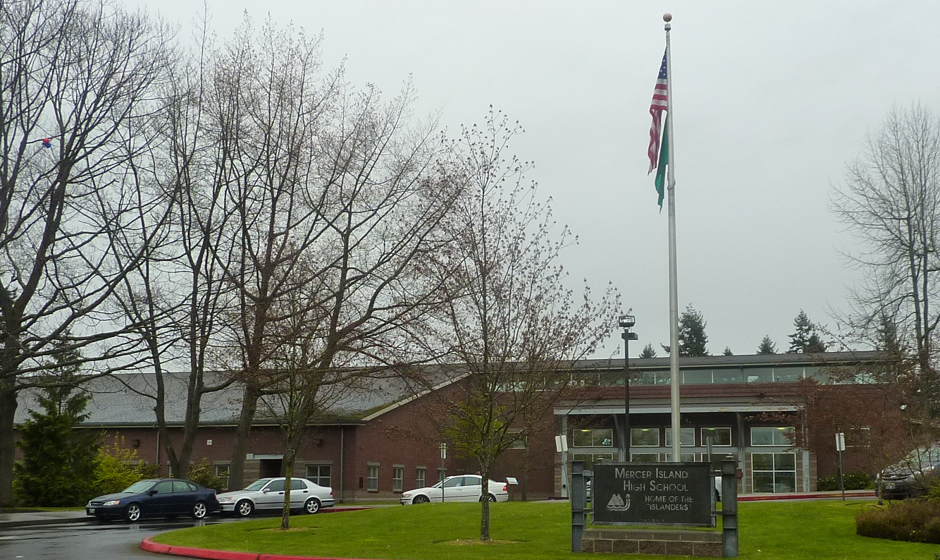 Mercer Island High School, main entry